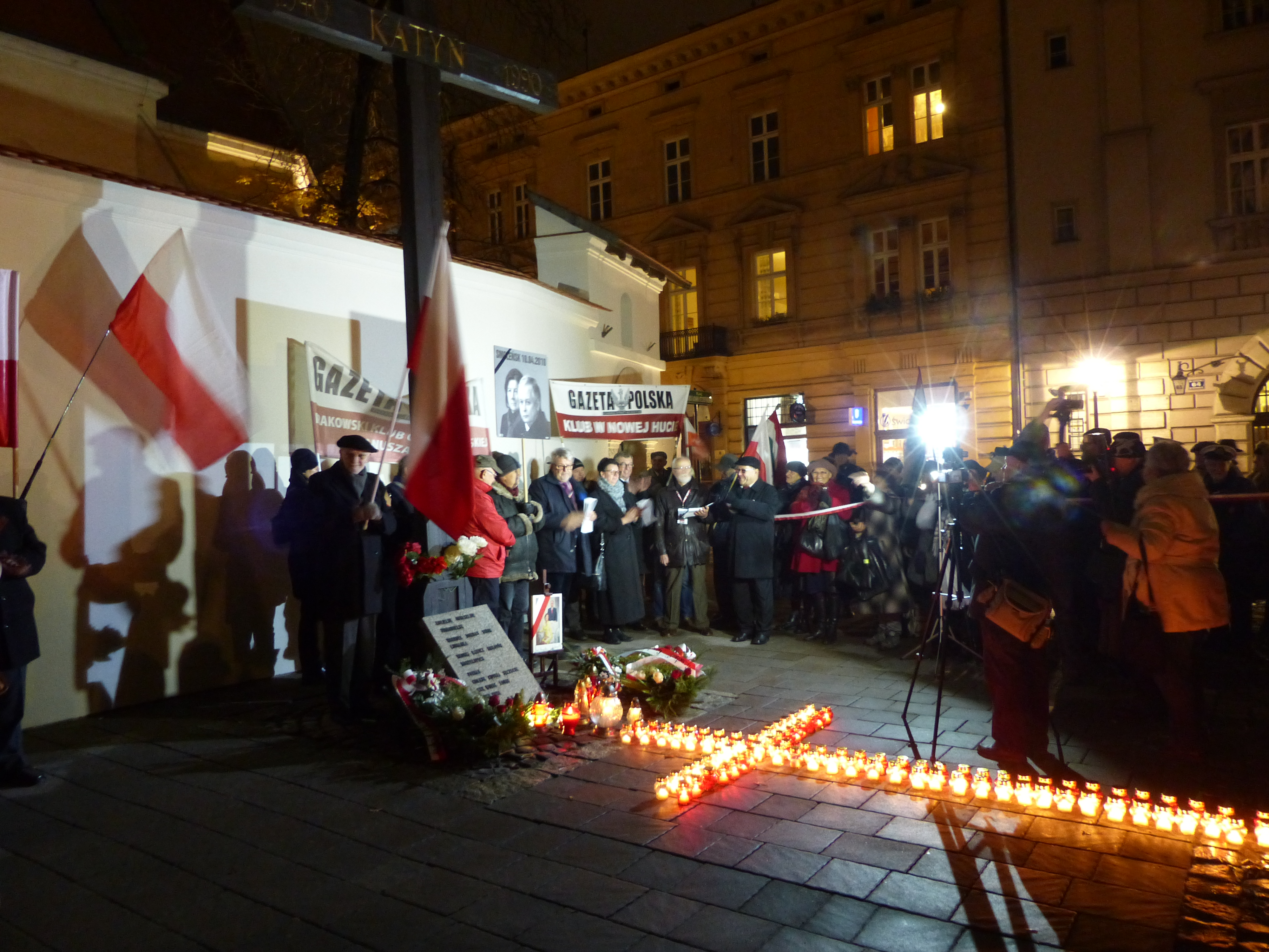 Taken on the 10th of November, 2016. Krakow, Central Europe. Csizmadia László speaking (Civil Összefogás Fórum). Wreath Laying Ceremony, Katyn Cross